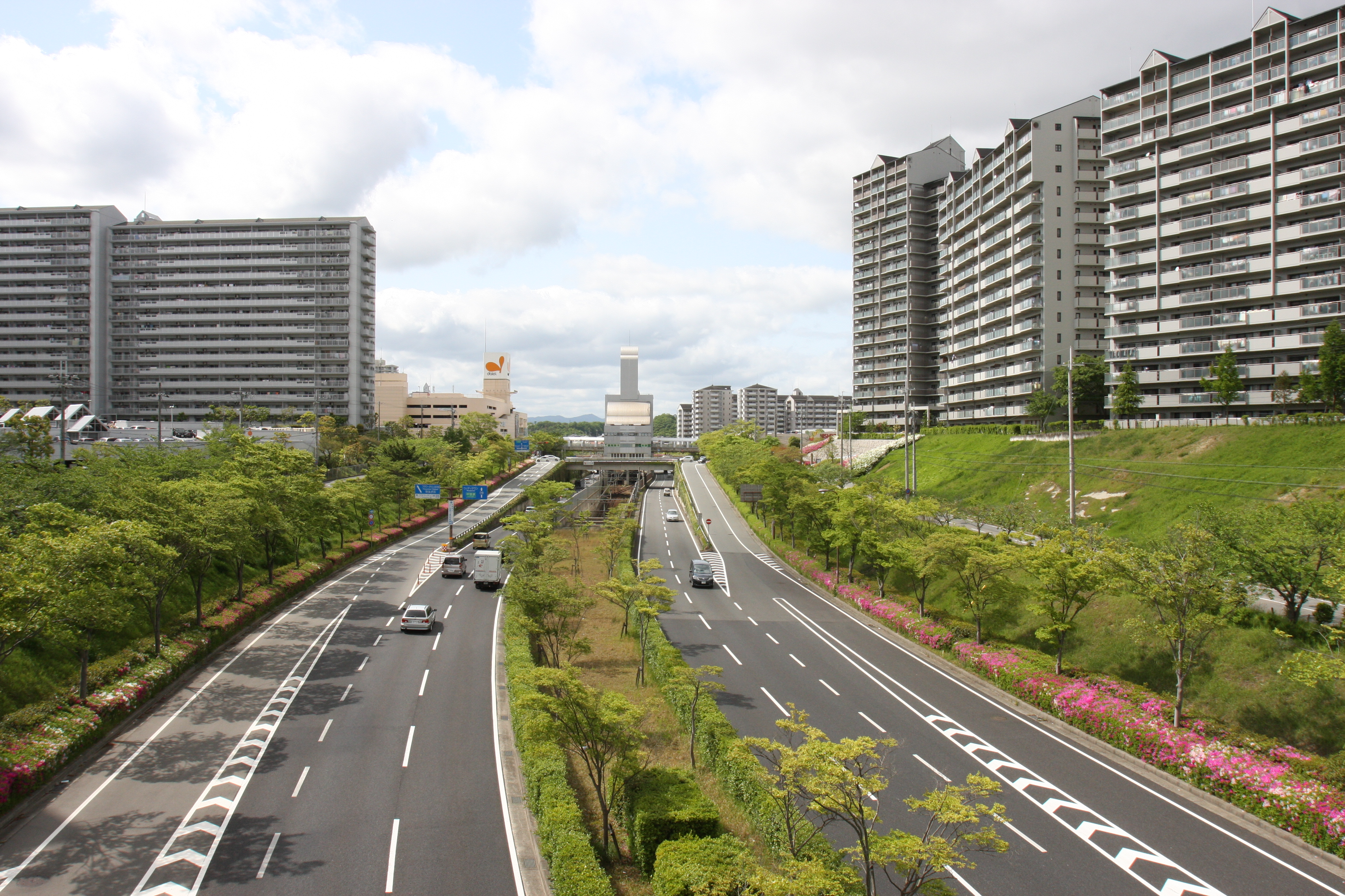 Flower Town in Sanda City, Hyogo Prefecture, Japan